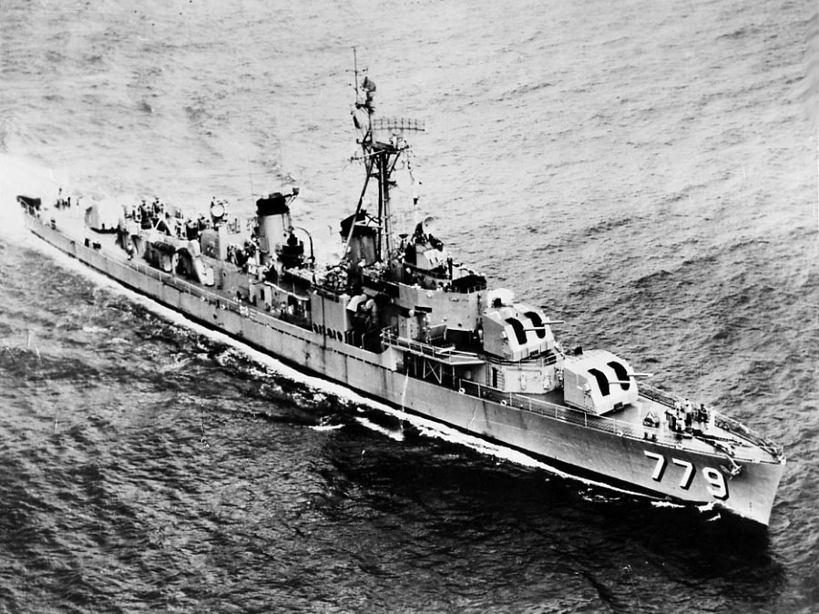 The U.S. Navy destroyer USS Douglas H. Fox (DD-779) underway at sea, circa the middle or later 1950s.